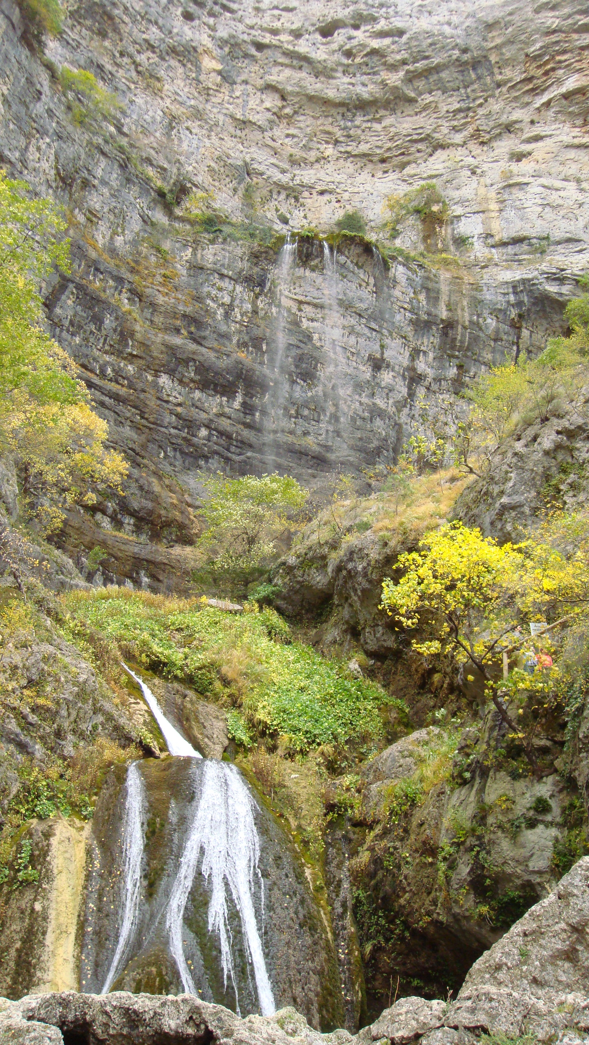 The sources of Rio Mundo in the nature park Los Calares del Río Mundo. Foto taken in November 2009.